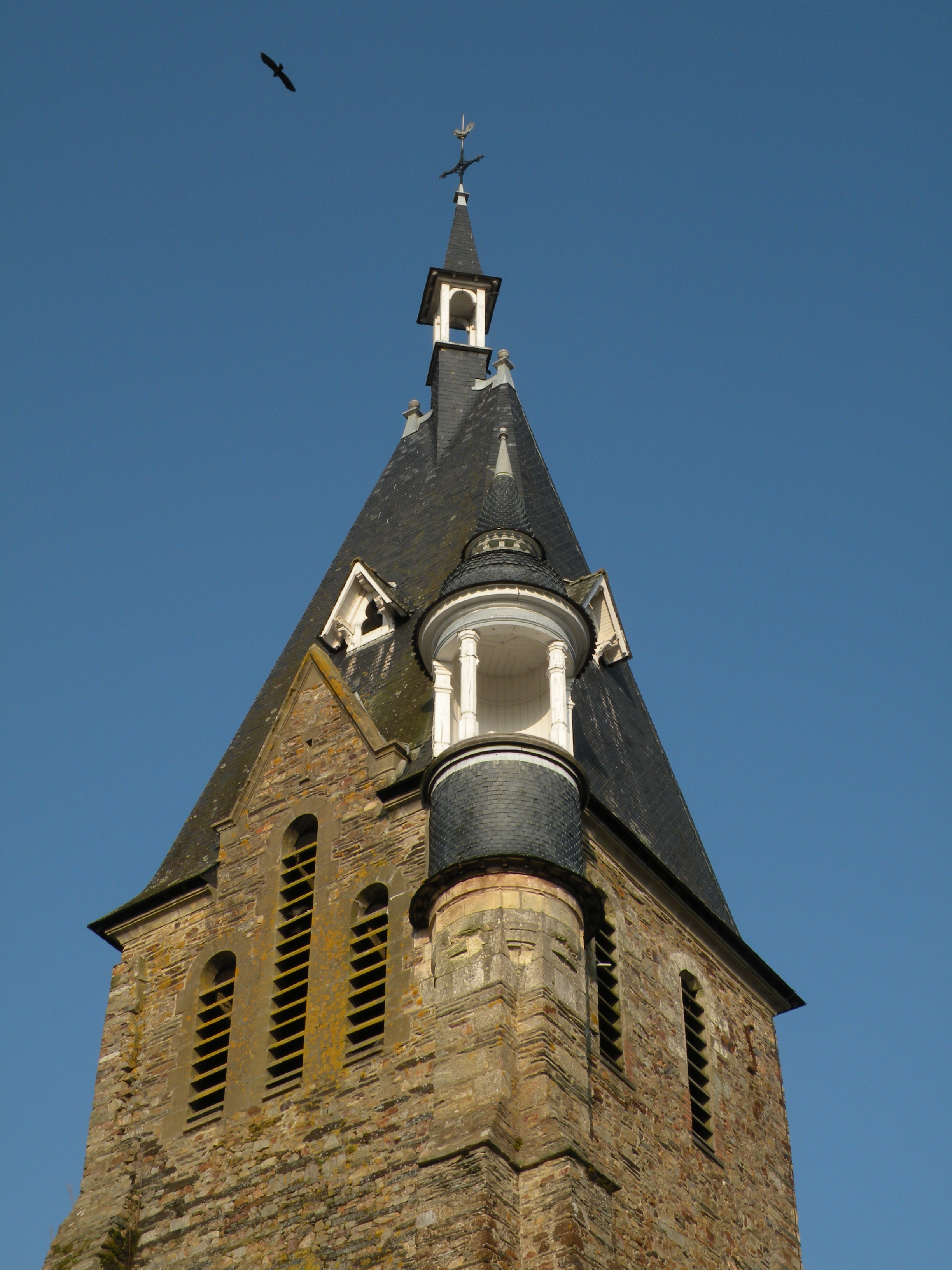 Church of Grand-Fougeray